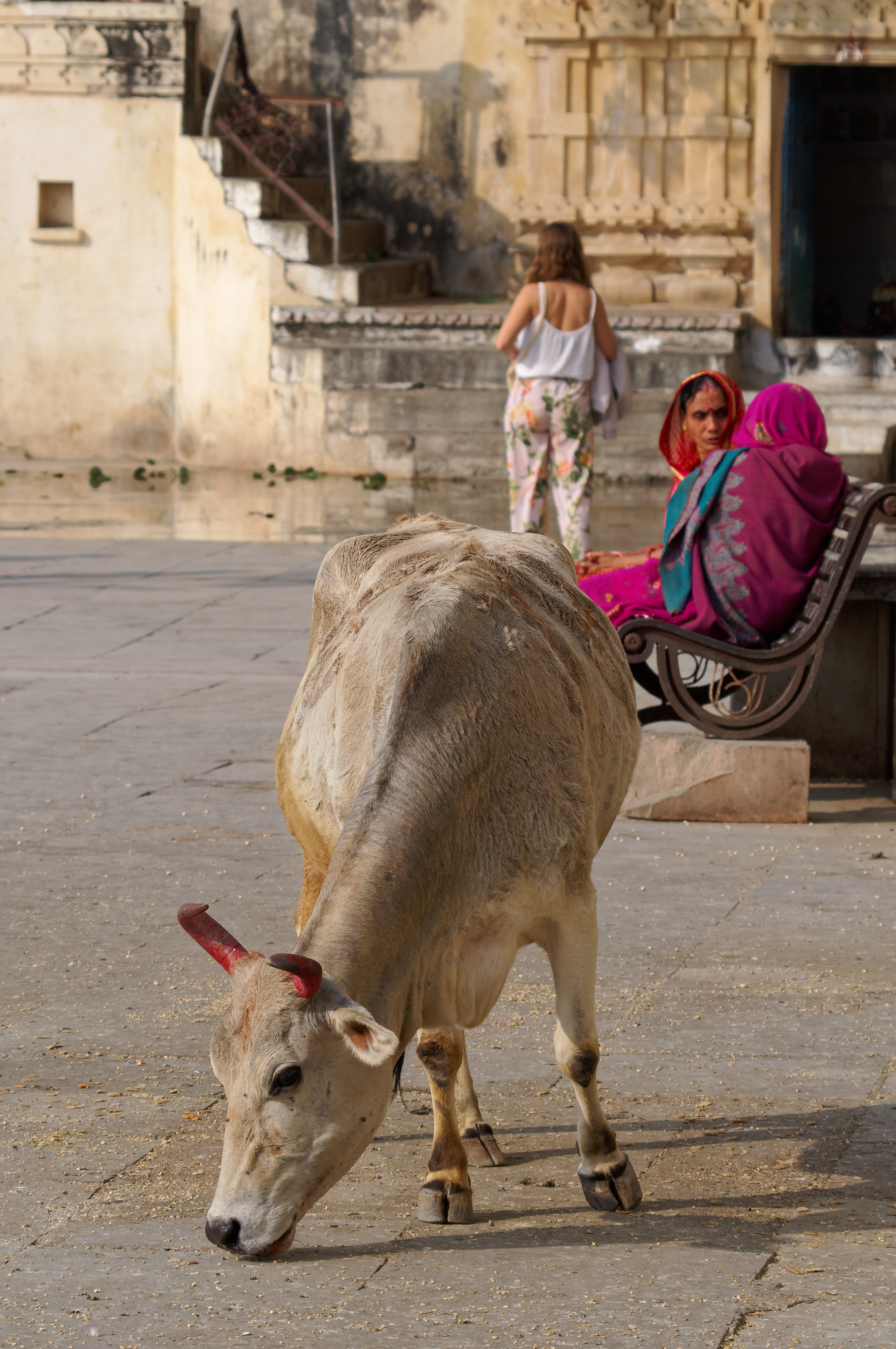 A cow on a street of Udaipur, India